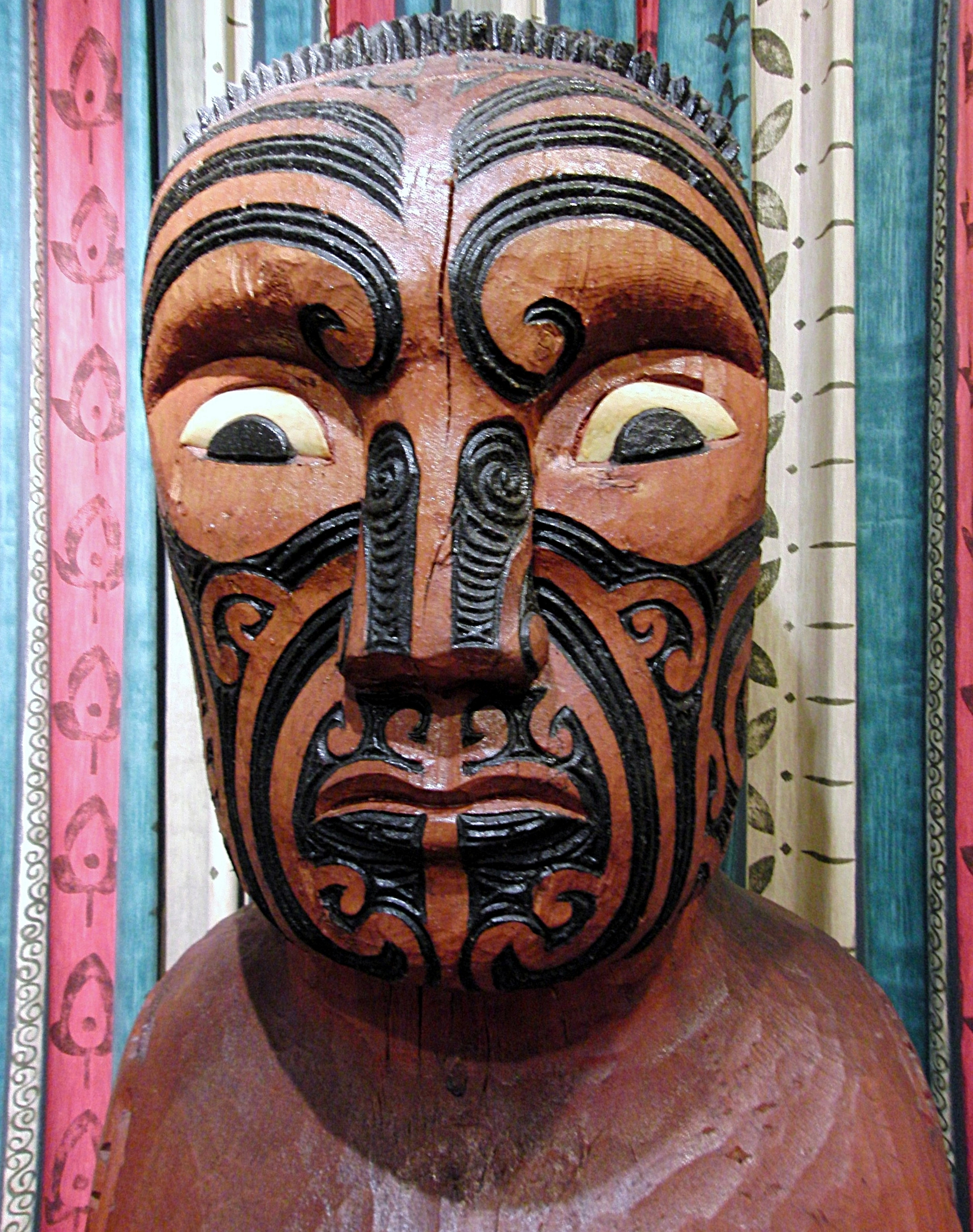 bust of Ranginui (the sky father)) in Rotorua, New Zealand